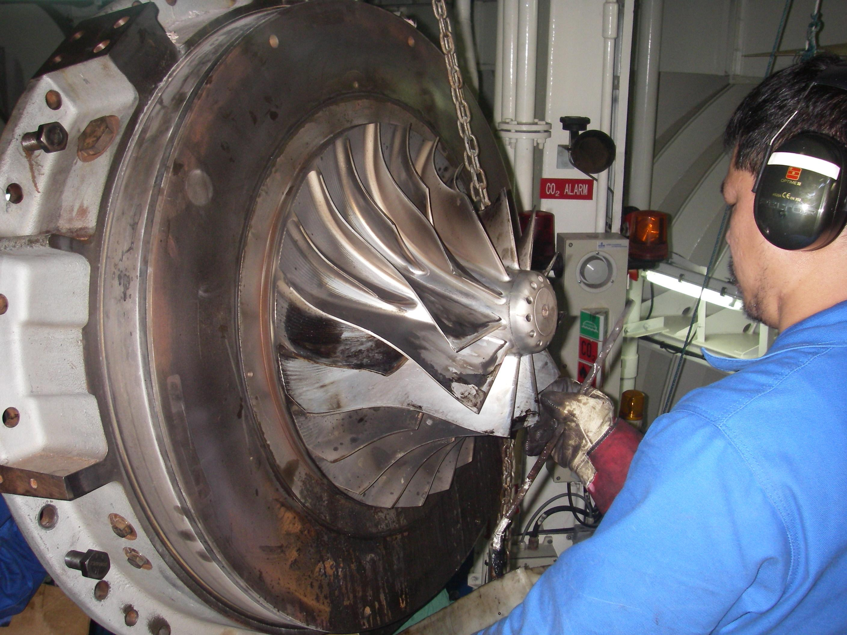 Compressor side of ABB turbo charger for Wärtsilä 6L 46 engine.